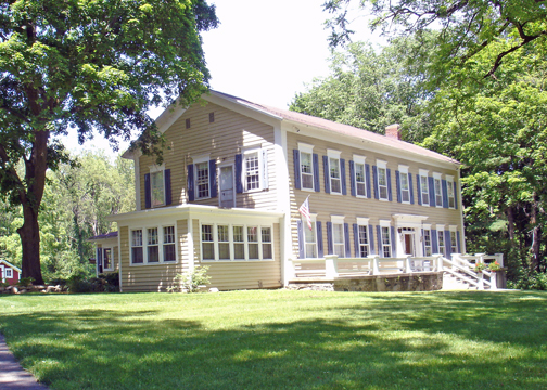 The Whitney Tavern Stand museum — in Cascade Township, Kent County, Michigan. Built in 1853 — listed on the US National Register of Historic Places (NRHP).